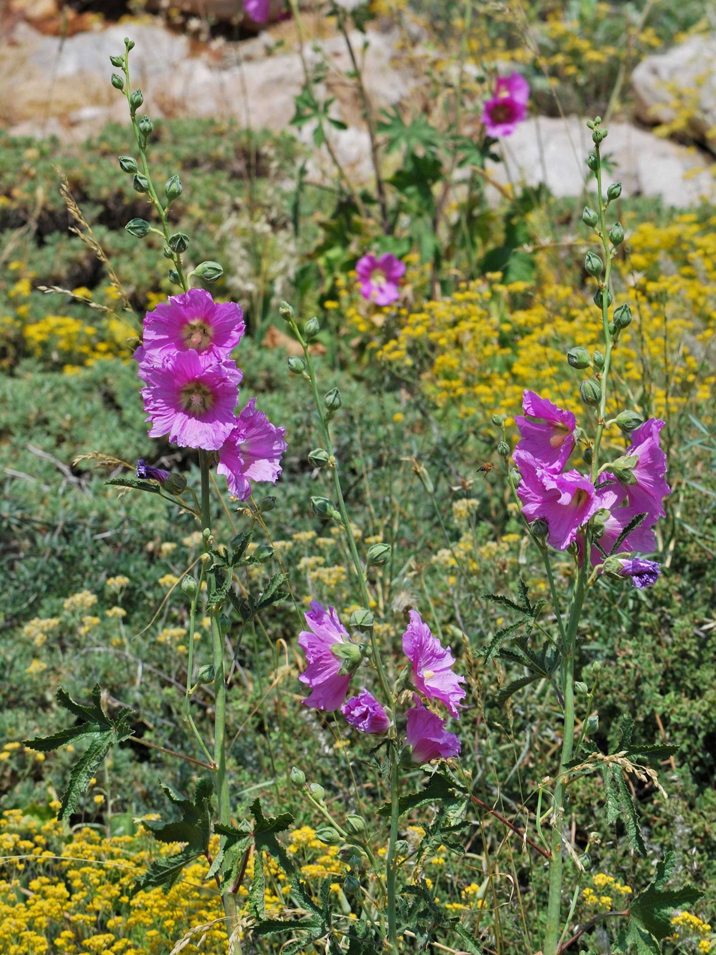 Alcea dissecta (Baker f.) Zohary, Har Habushit, Mount Hermon, Israel/Syria, July 9, 2011.